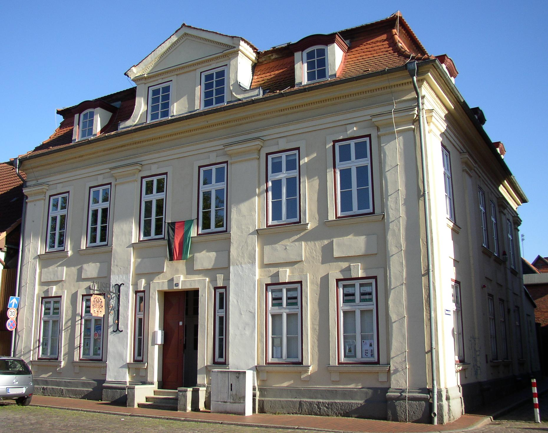 Museum in Parchim in Mecklenburg-Western Pomerania, Germany